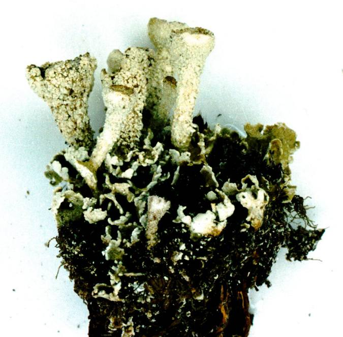 Cladonia carneola (Fr.) Fr., 1831 Photograph of a herbarium specimen showing yellow-green, sorediate pixie-cups. Cladonia carneola was growing on a rock off of Kelley Point Road in Jonesport, Washington County, Maine, USA (Lat. 44o31.9' N, Long. 67o34.5' W). Collected by E.C. Uebel, and identified by Dr. David H.S. Richardson (No. U-172, 14 Jun 2001).